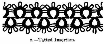 Tatted insertion with picot edges.